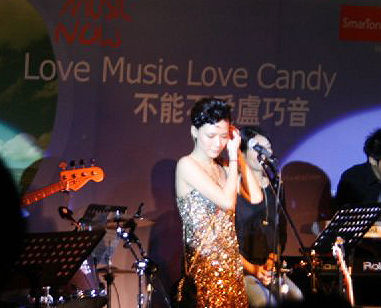 Candy Lo